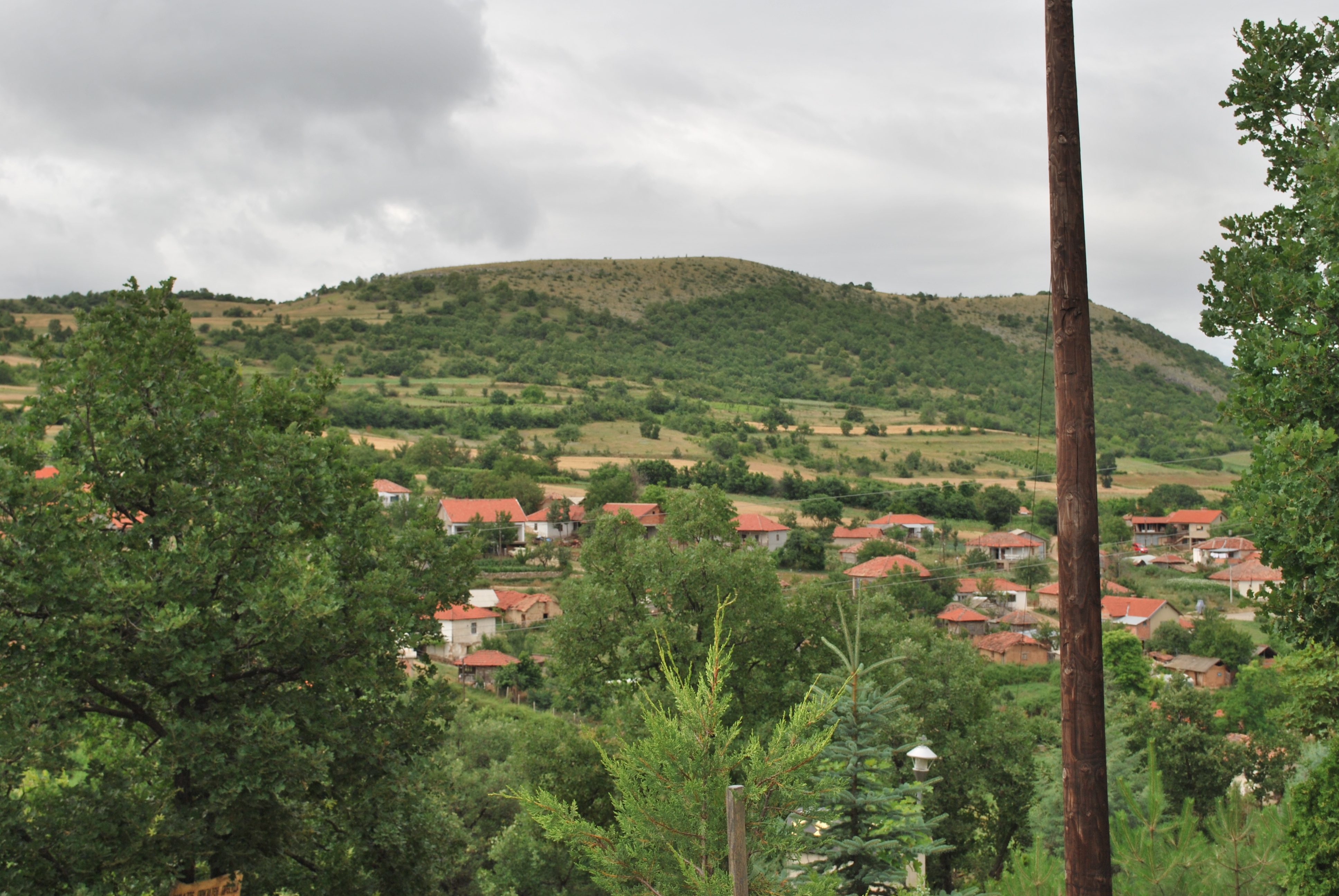 Skačkovce, near Kumanovo, Macedonia